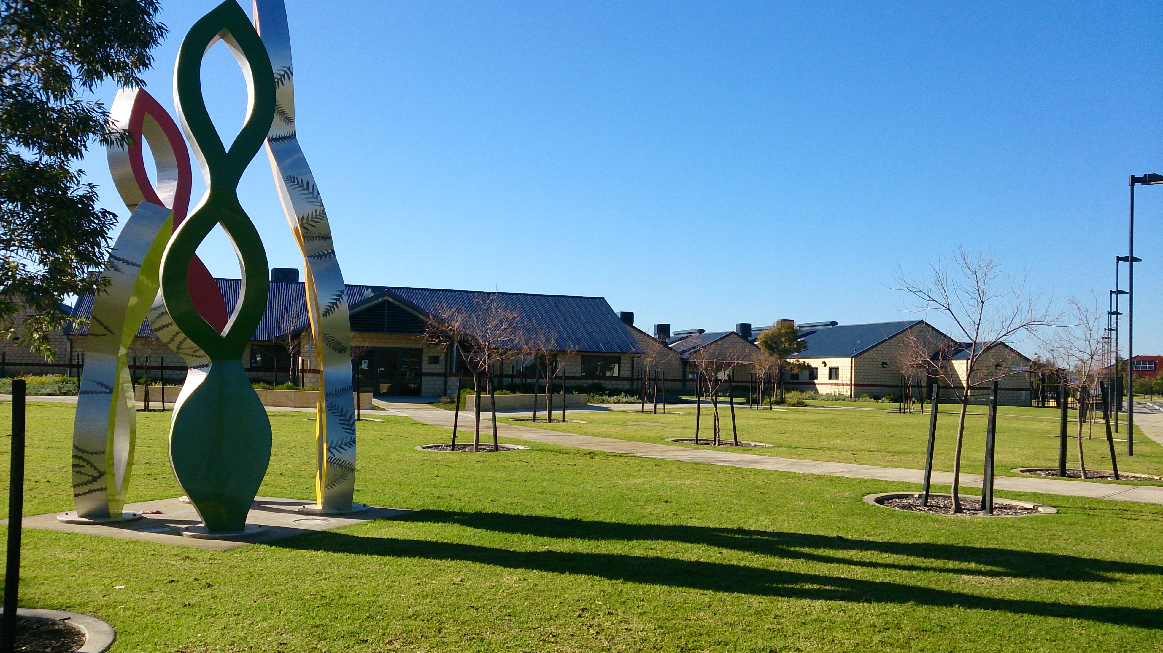 Local primary school in Piara Waters, Western Australia.